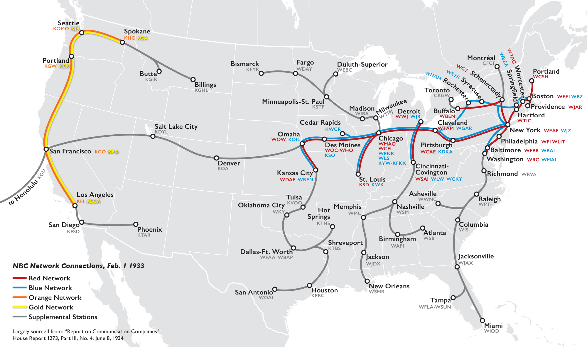 NBC radio network connections, Feb 1st 1933.